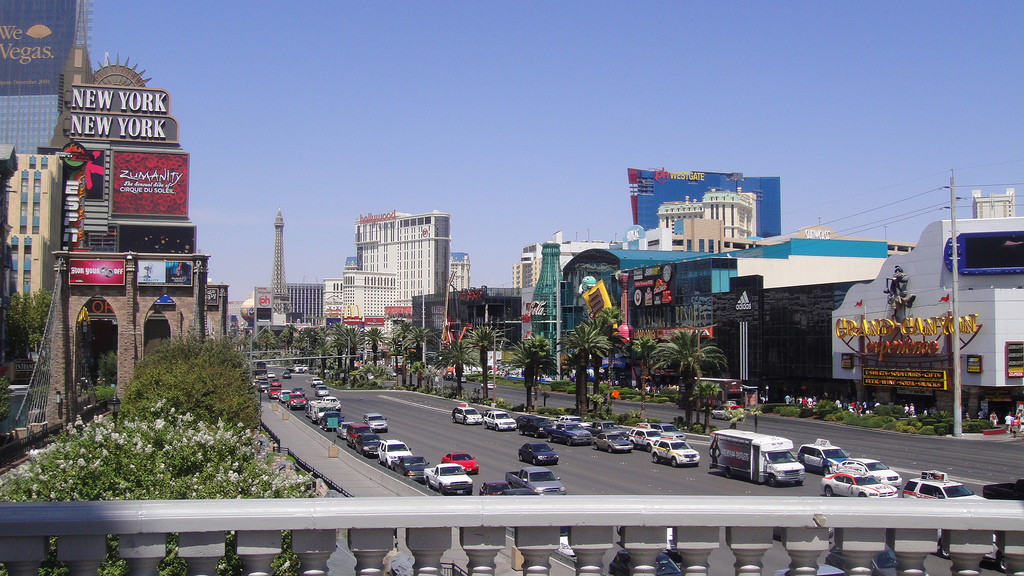 Description: View of the Las Vegas Strip from the New York New York-MGM Grand over street, bridge crossing. Author: Josh Truelson [cooljuno411] Date Created: Tuesday, August 18, 2009 [2009-08-18] Location: The Strip, Las Vegas, Nevada Event: Vacation to Las Vegas.